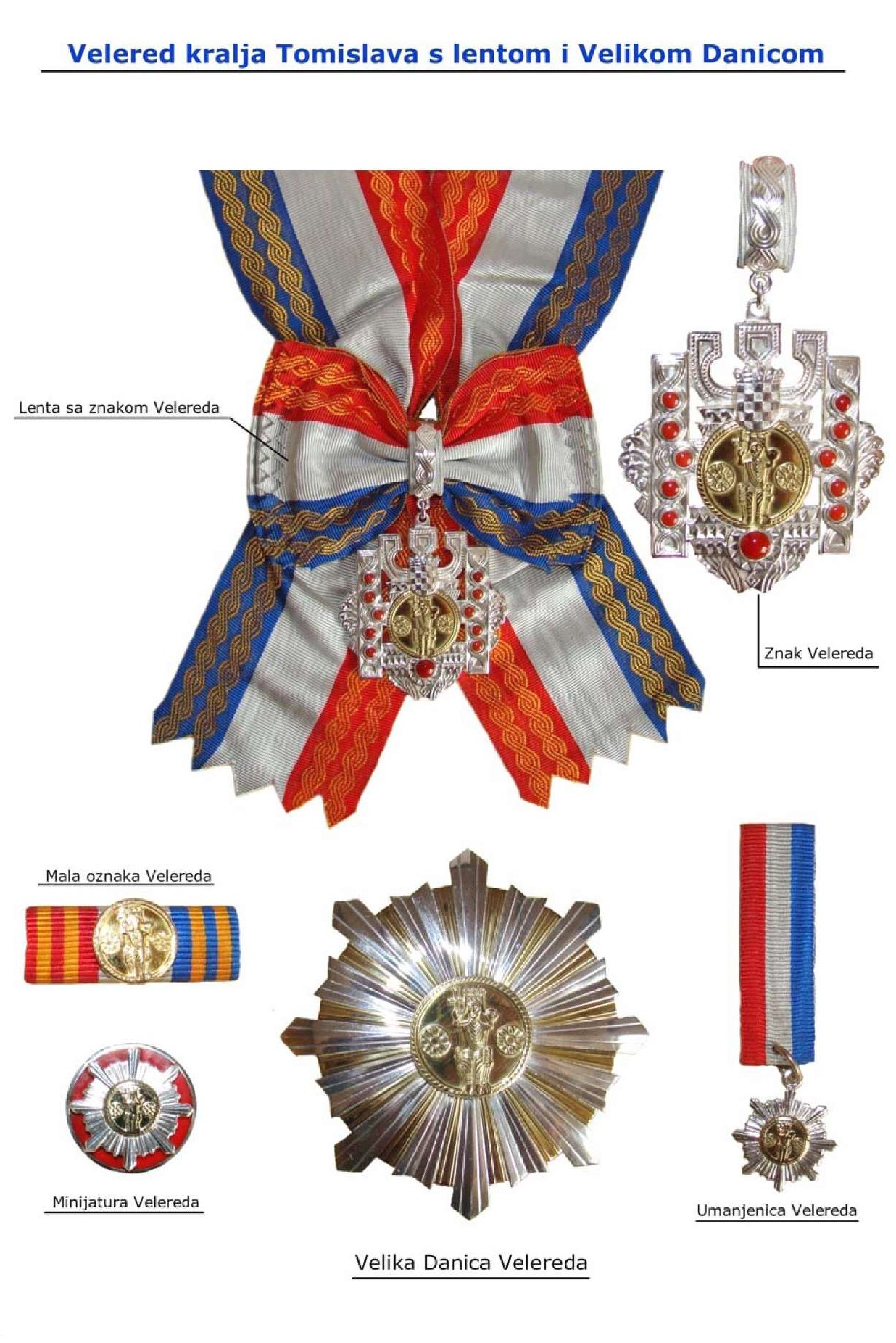 Grand Order of King Tomislav with Sash and Great Morning Star